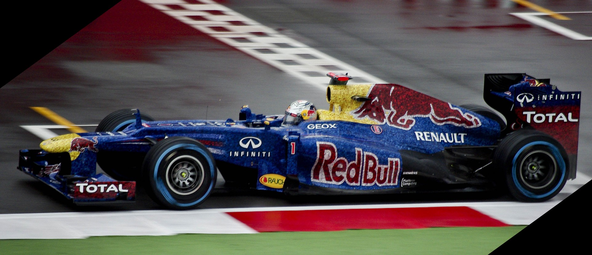 Date Taken:- 06/07/12 Images Shows:- Two time and current Formula One (F1) World Champion Sebastian Vettel (Germany) drives his Red Bull car in the very trecharous conditions at the Santander British Grand Prix at Silverstone, Northampton, United Kingdom (UK). The special Wings For Life liveried car looked great driving through the cascades of water flooding the circuit. The new RB8 designs were unveiled prior to free practice one and sees fans pictures laid on the car.